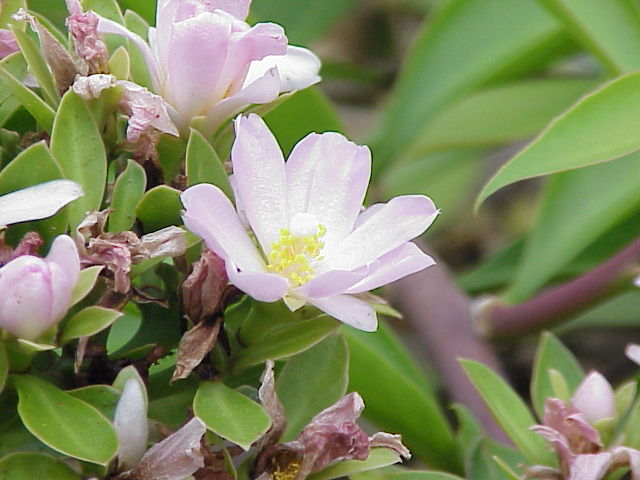 Species: Pereskia grandifolia Family: Cactaceae Image No. 3